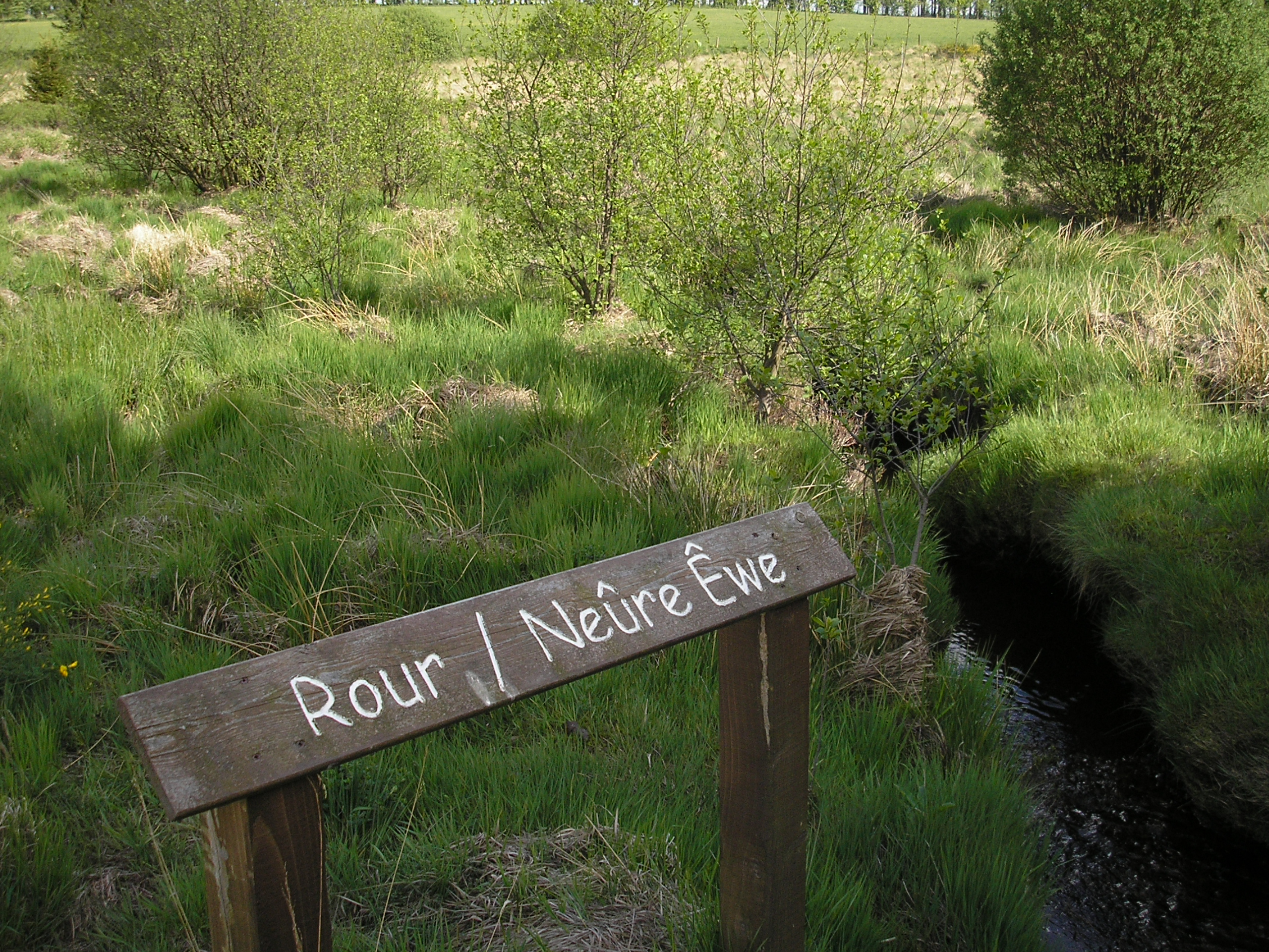 River Rur, Weismes-Sourbrodt, East Belgium